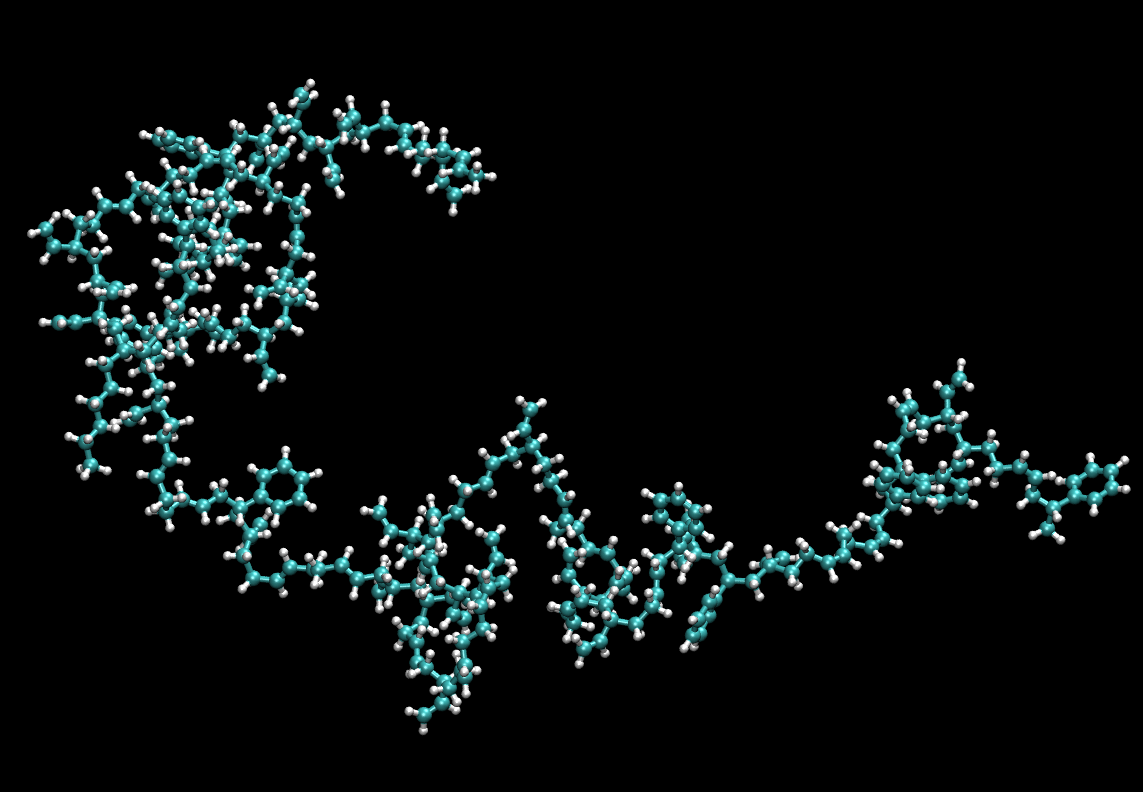 Carbon atoms in cyan, hydrogen atoms in white. Orthographic view. Image produced with VMD.